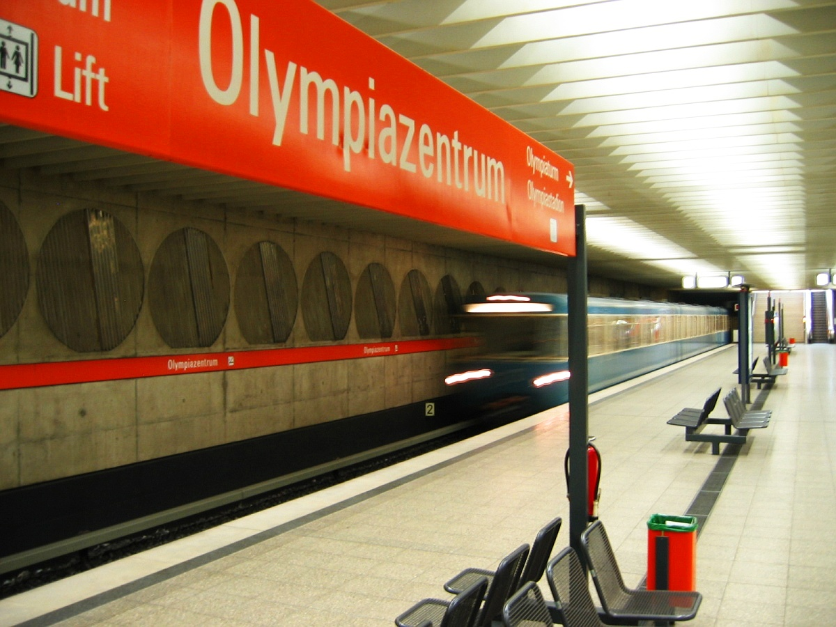 Munich subway station Olympiazentrum (line U3)